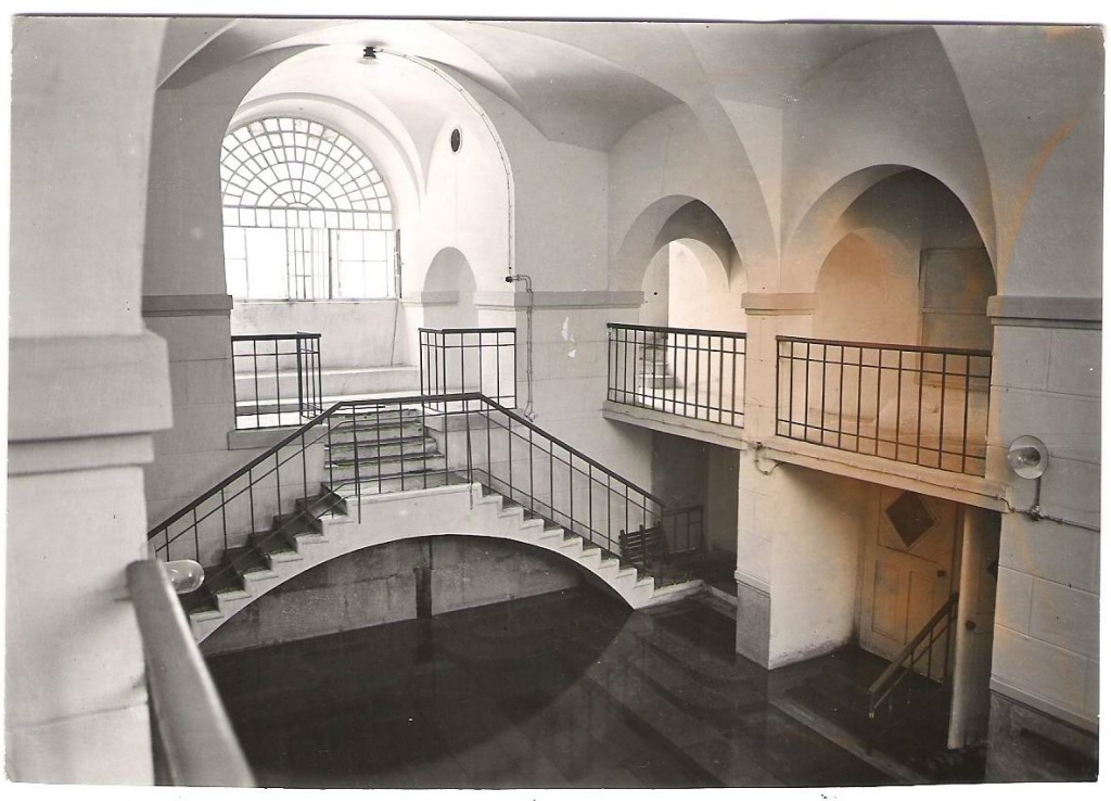 Postcard of Dolenjske Toplice